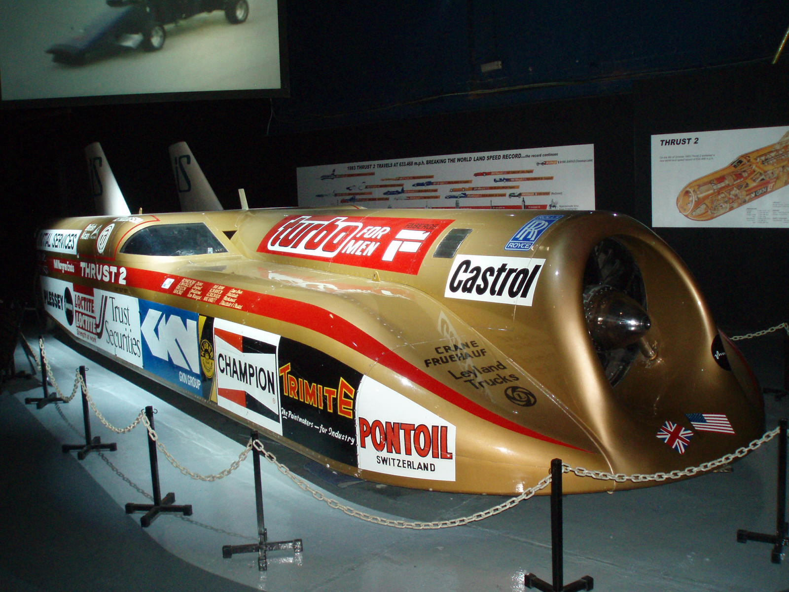 Thrust 2 jet car in Coventry Transport Museum, April 2007.